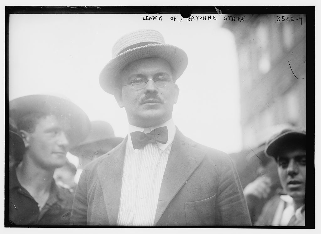 Frank Tannenbaum at the Bayonne refinery strike in 1915. Leader of Bayonne strike (LOC) Bain News Service, publisher. Leader of Bayonne strike [between ca. 1910 and ca. 1915] 1 negative : glass ; 5 x 7 in. or smaller. Notes: Title from unverified data provided by the Bain News Service on the negatives or caption cards. Forms part of: George Grantham Bain Collection (Library of Congress). Format: Glass negatives. Repository: Library of Congress, Prints and Photographs Division, Washington, D.C. 20540 USA, General information about the Bain Collection is available at Higher resolution image is available (Persistent URL): Call Number: LC-B2- 3552-4